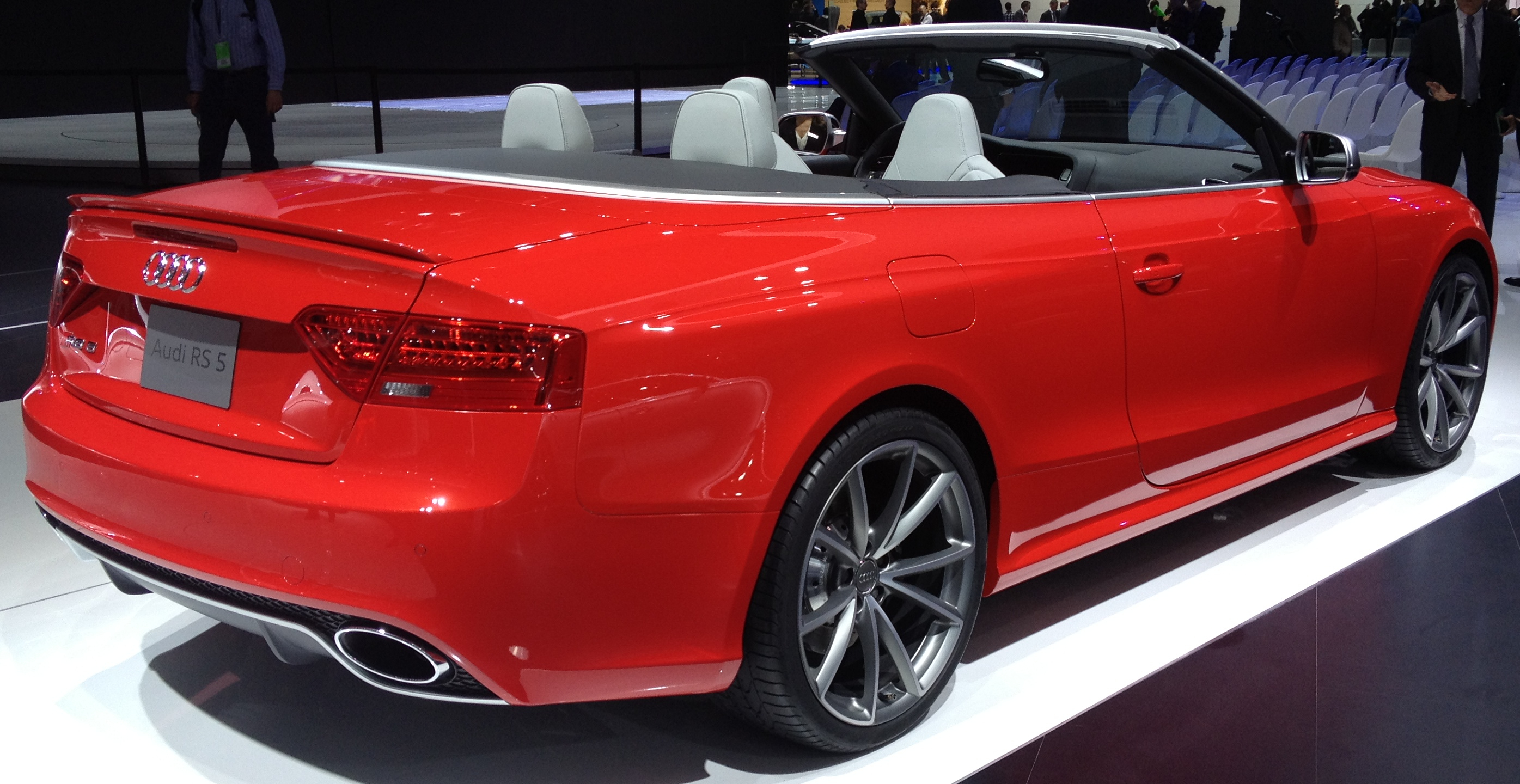 2013 North American International Auto Show Detroit, Michigan